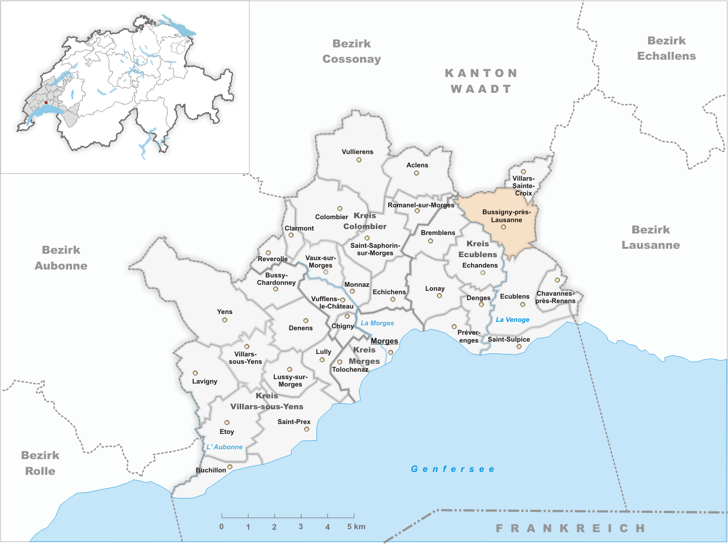 Municipality Bussigny-près-Lausanne